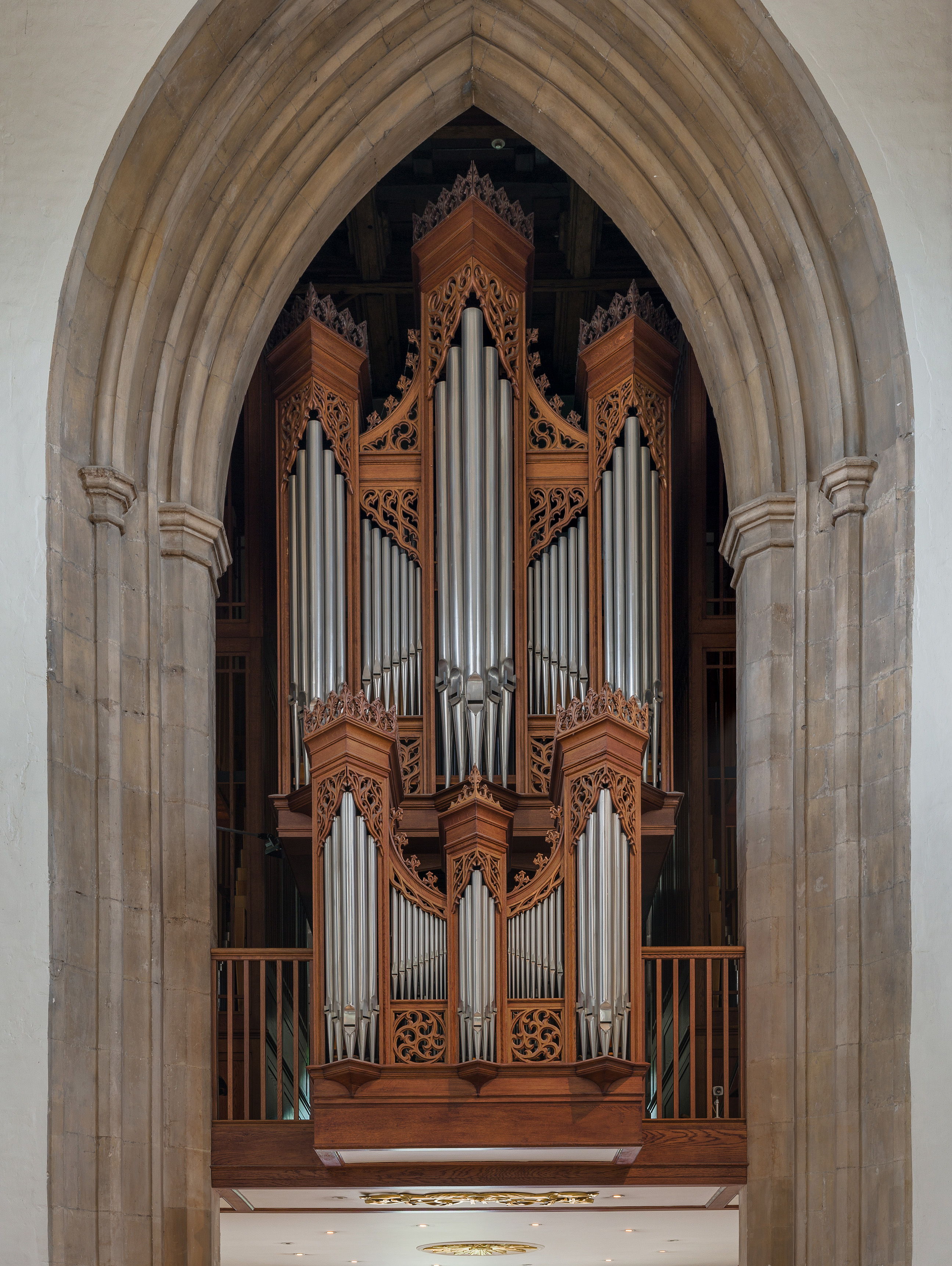 The organ of Chelmsford Cathedral in Essex, England, viewed from the east.